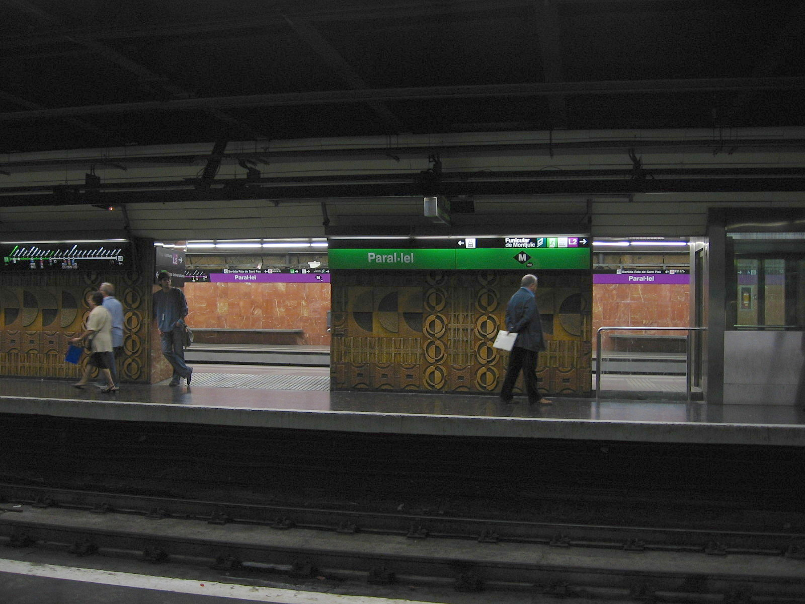 Platforms for both lines at Paral.lel metro station, Barcelona